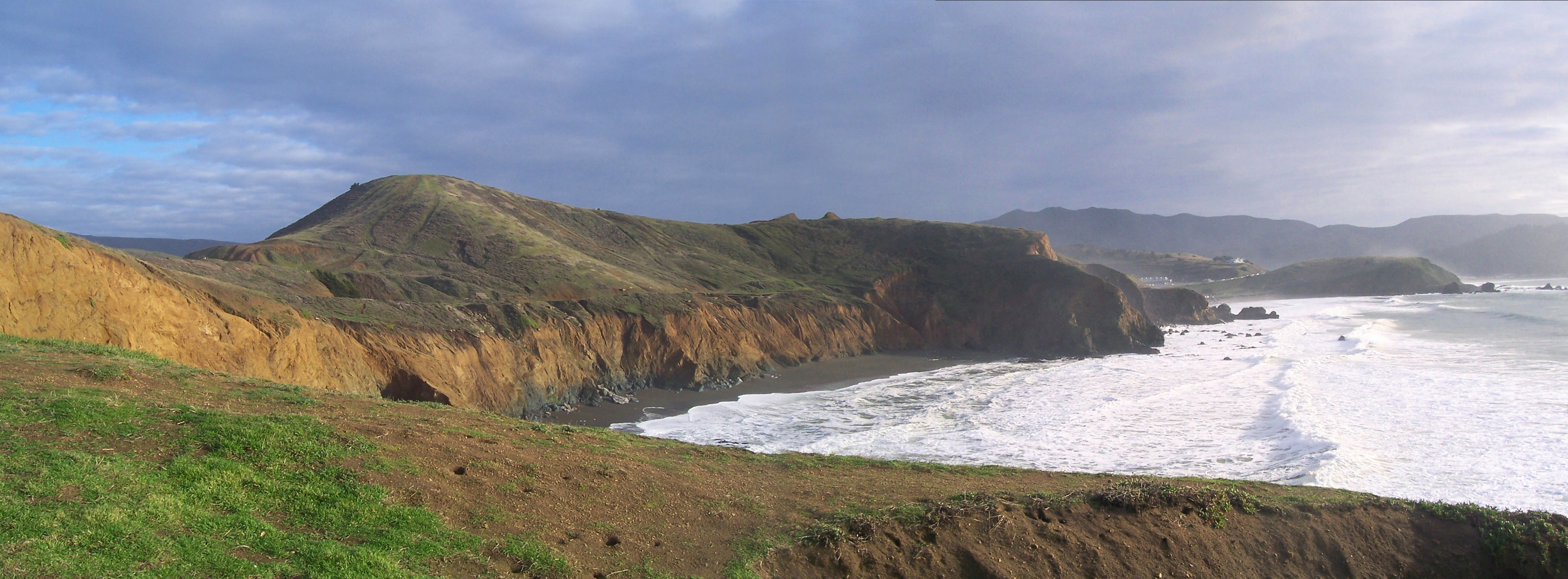 From atop Mori Point view of the coast looking south, Pacifica, California.